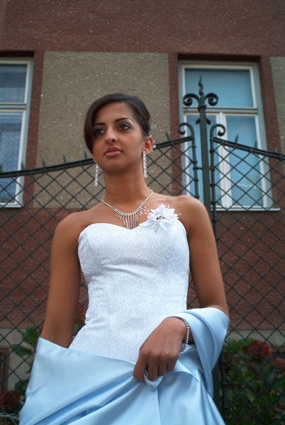 Lucka, the bridesmaid at a wedding in Brno, Czech Republic in August 2006.